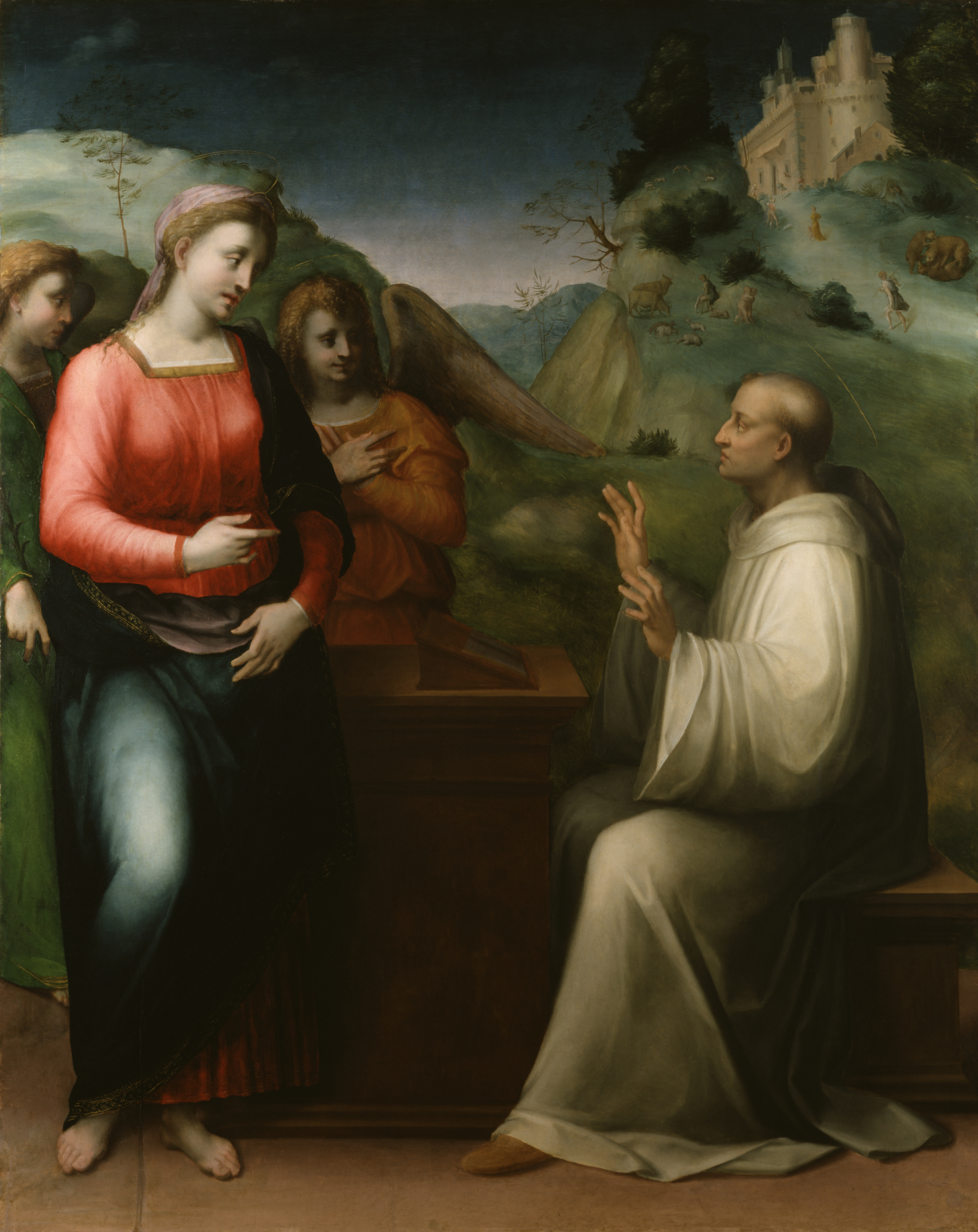 Seated at a reading desk in front of a landscape, St. Bernard of Clairvaux (1090-1153) has a vision of the Virgin Mary attended by two angels. The saint, who wears the white habit of the Cistercian order of monks, was known for his devotion to the Virgin, and several mystical visions of her were ascribed to him. This painting, which the great writer on art Giorgio Vasari (1511-1574) thought was the best Puligo ever did, is executed in a monumental and yet graceful style.